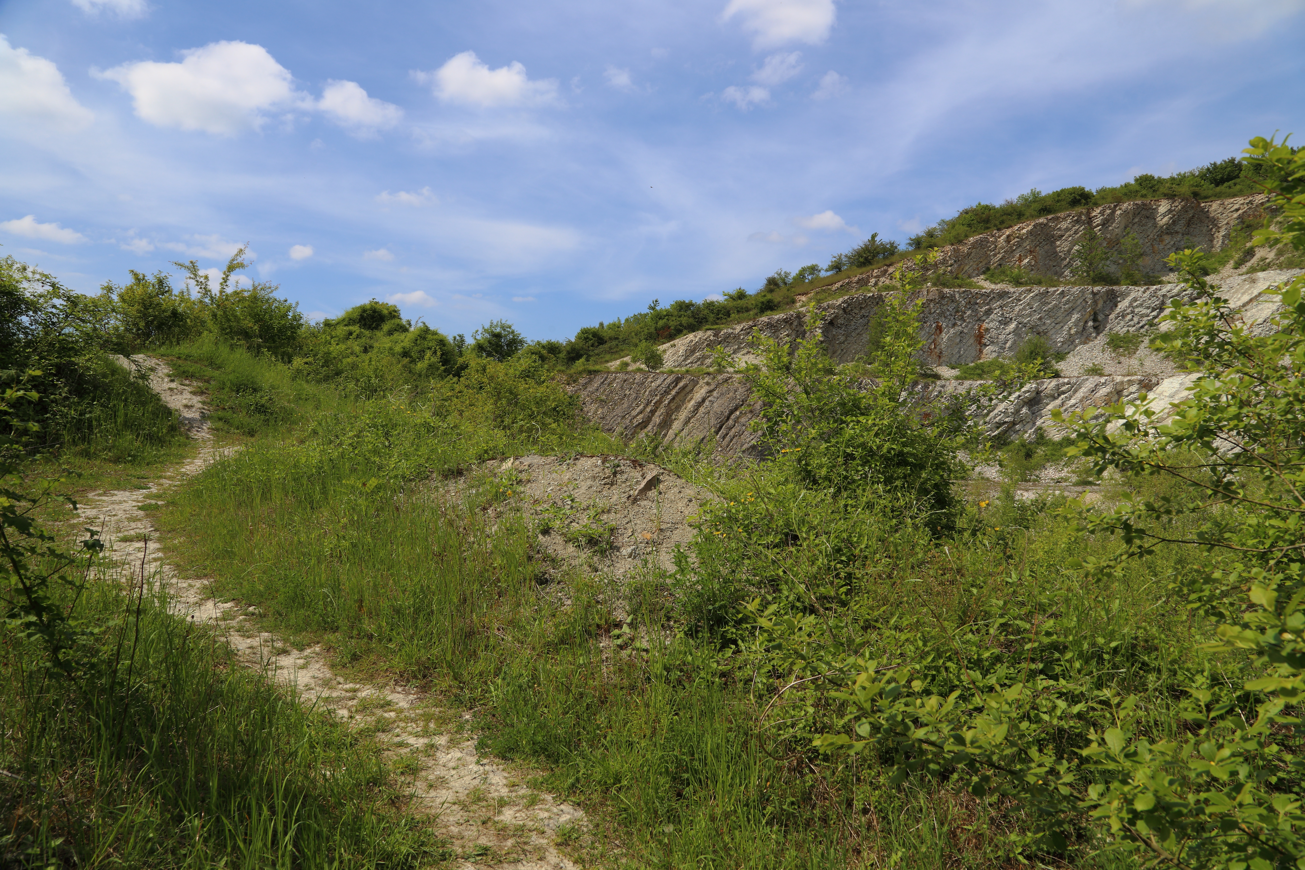 The former limestone quarry Kalksteinbruch Wallmeyer, now part of the nature reserve (Naturschutzgebiet) „Osterklee“ in Tecklenburg-Brochterbeck, Kreis Steinfurt, North Rhine-Westphalia, Germany.